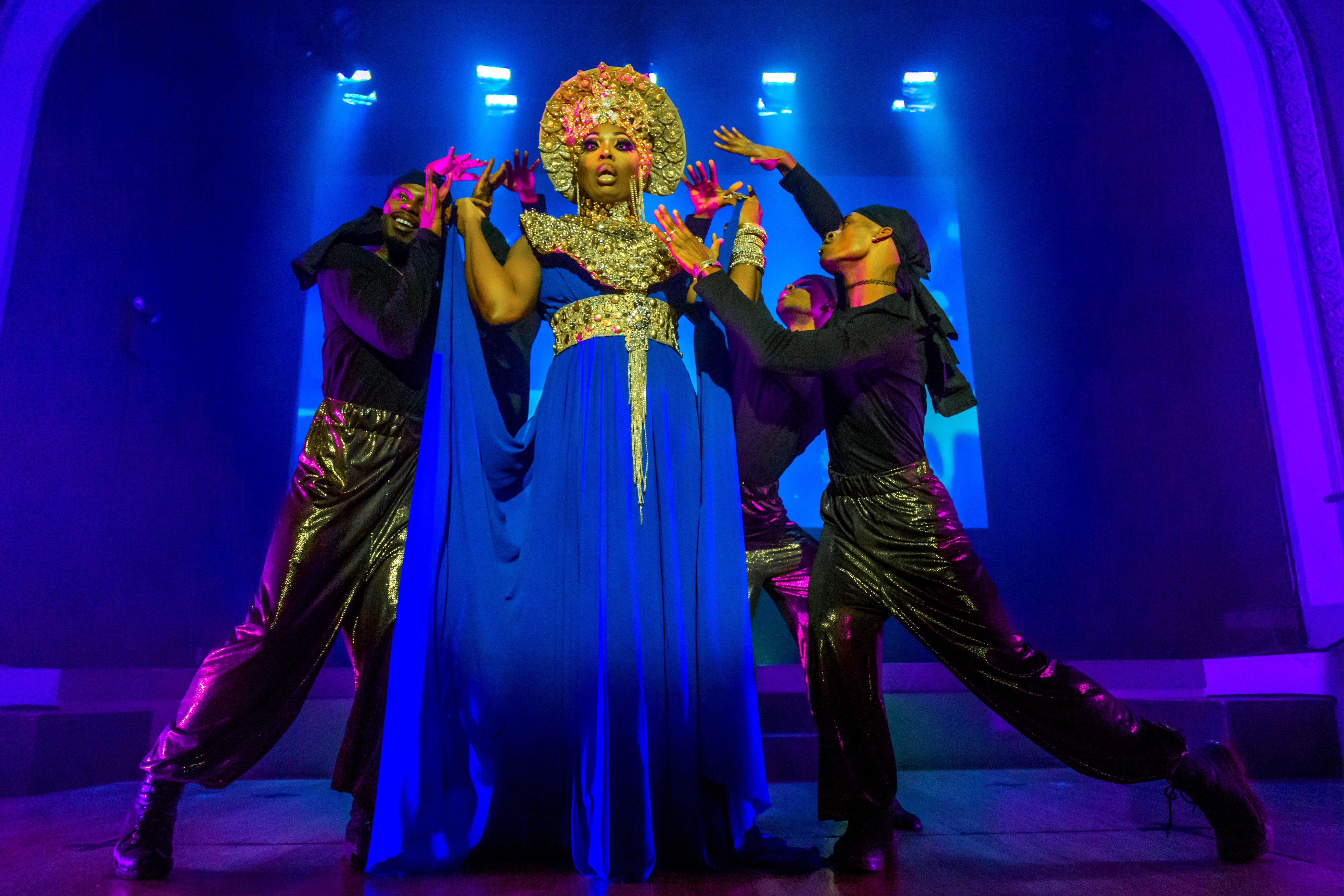 Bebe Zahara Benet at NUBIA NYC in 2020. Photo by Randall Starr.